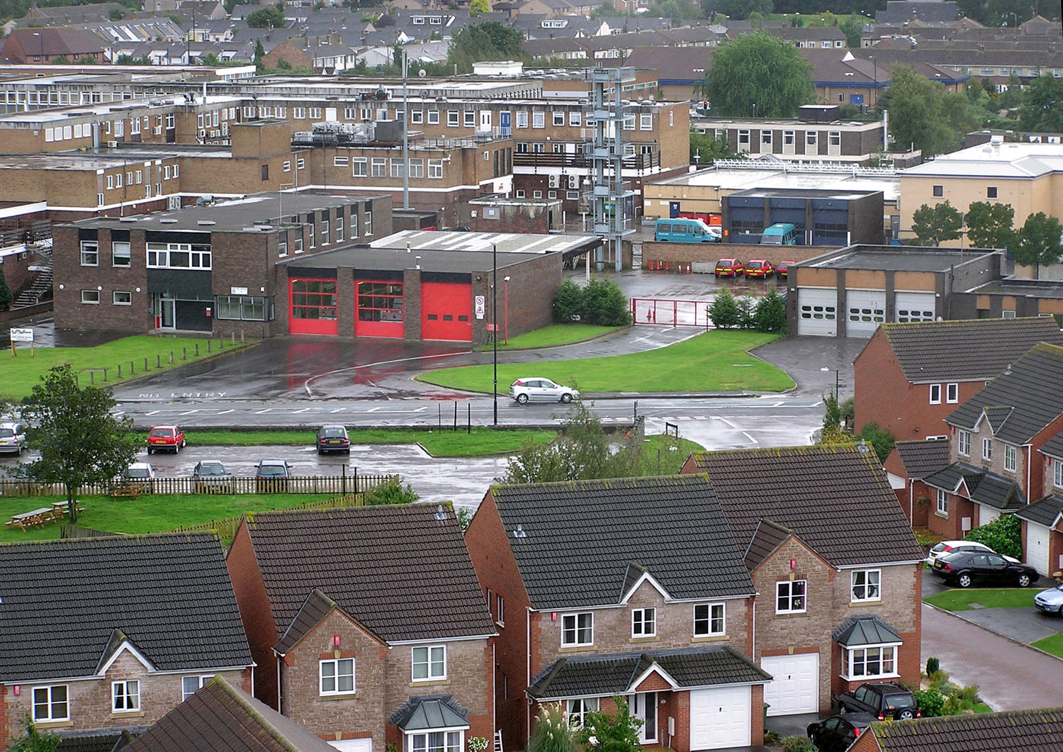 Yate Fire and Ambulance Stations , seen from the church tower. Photographed by Adrian Pingstone in September 2004 and released to the public domain.